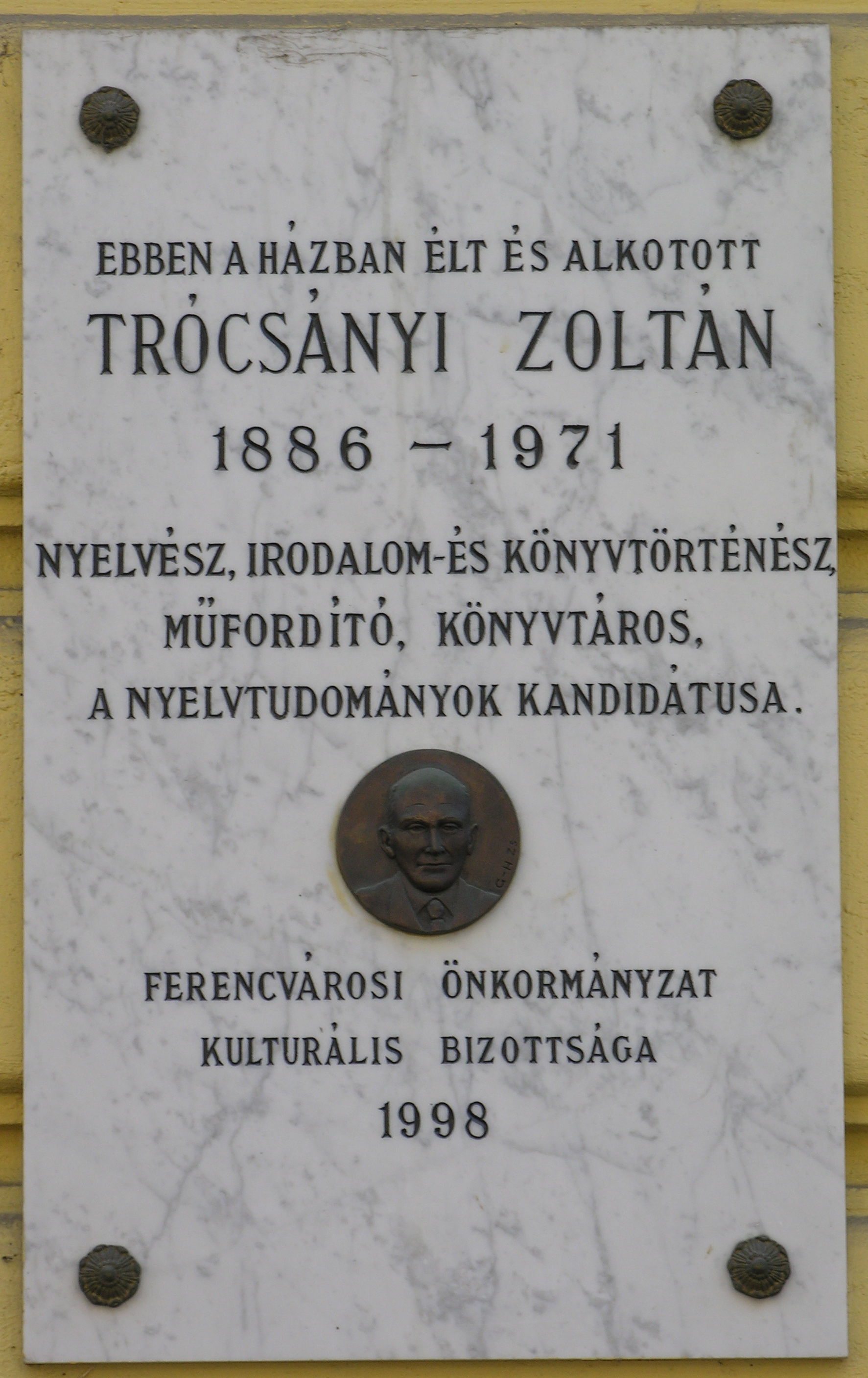 Commemorative plaque of Zoltán Trócsányi in Budapest District IX, Kinizsi Street No 35